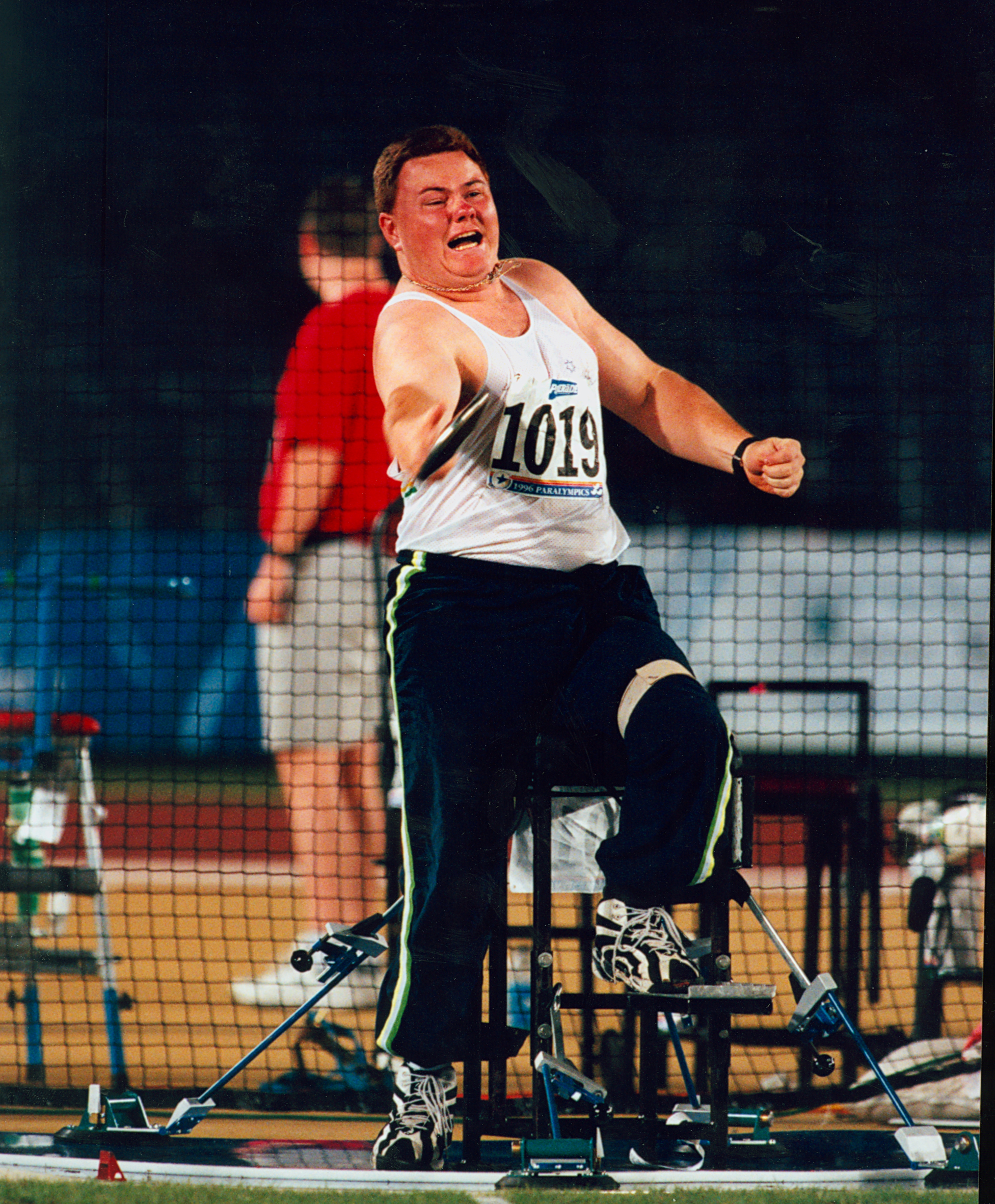 Australian F33 athlete Stephen Eaton competes in the discus seated throwing event at the 1996 Atlanta Paralympic Games in which he won a bronze medal